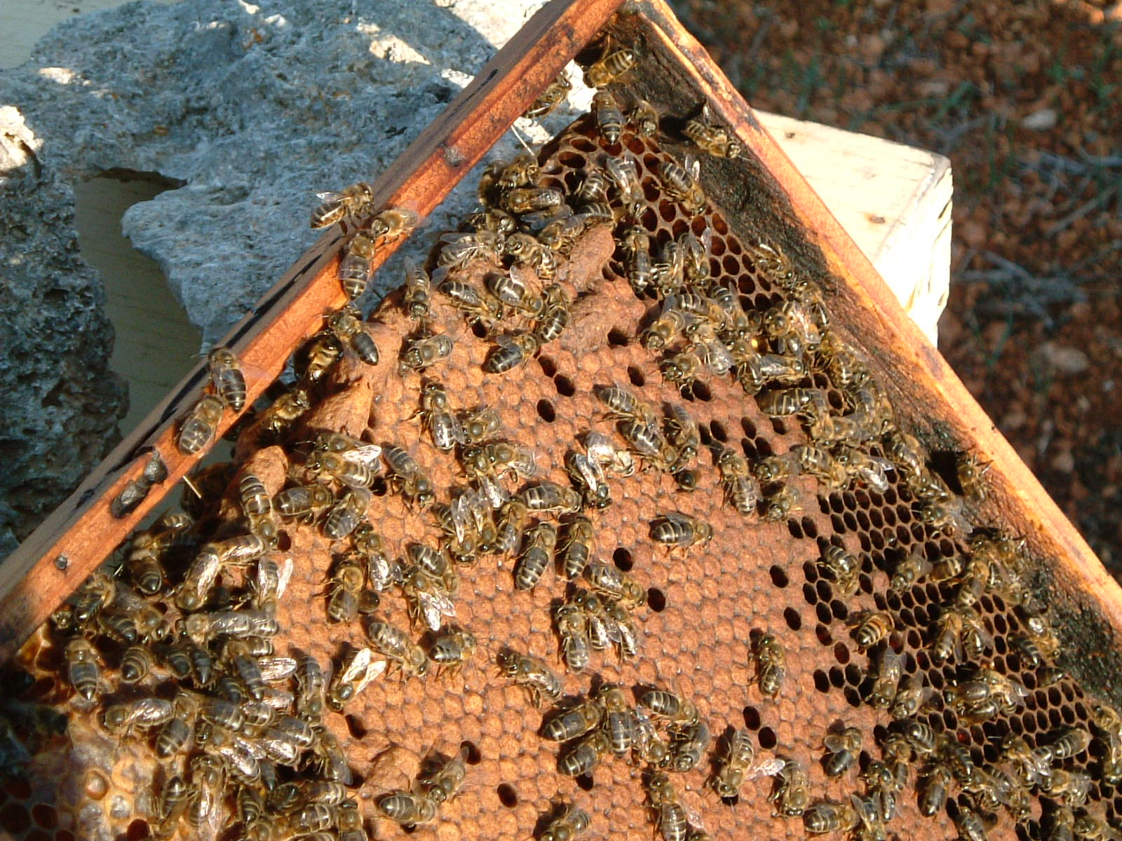 Bees of Maltese race Apis Mellifera Ruttneri on a brood frame with some queen cells on it. Malteseman1983 20:50, 13 December 2006 (UTC)